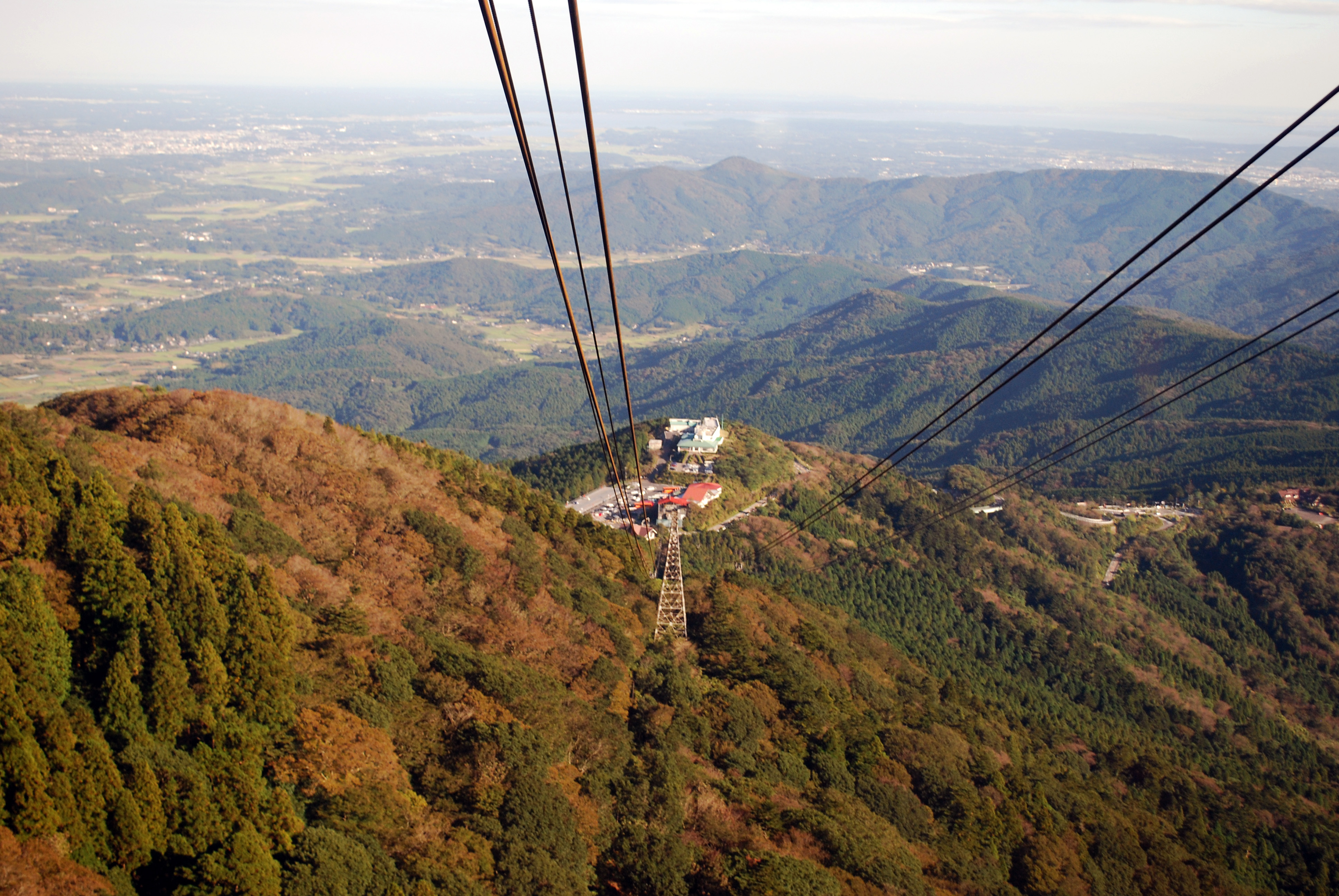 Kankō Railway: Ropeway on Mount Tsukuba - general view